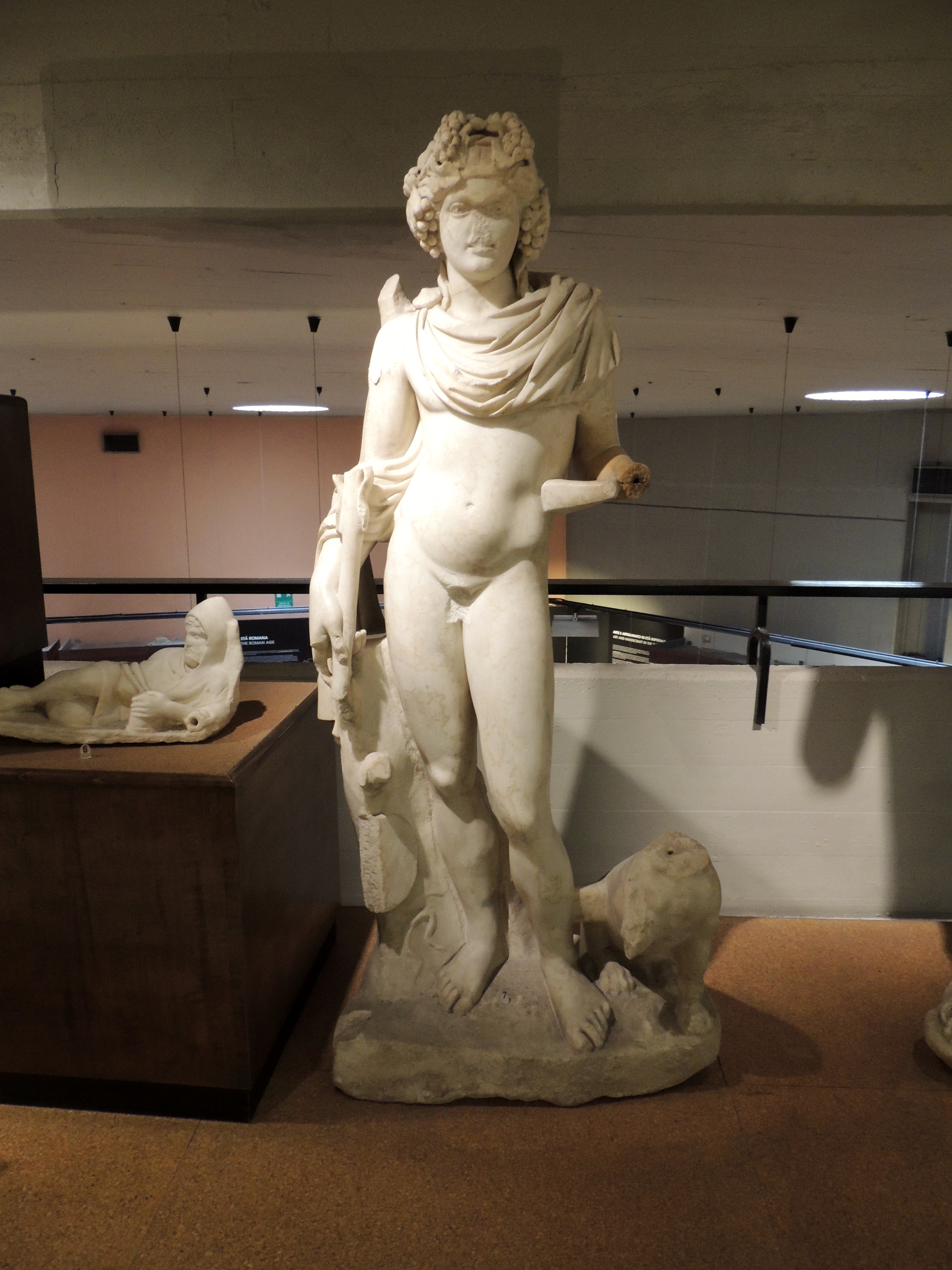 Ancient Roman statue of young Bacchus, found at Cagliari, currently on display in the Museo Archeologico Nazionale at Cagliari. Ground floor, area 11. It dates from the era of emperor Hadrian.